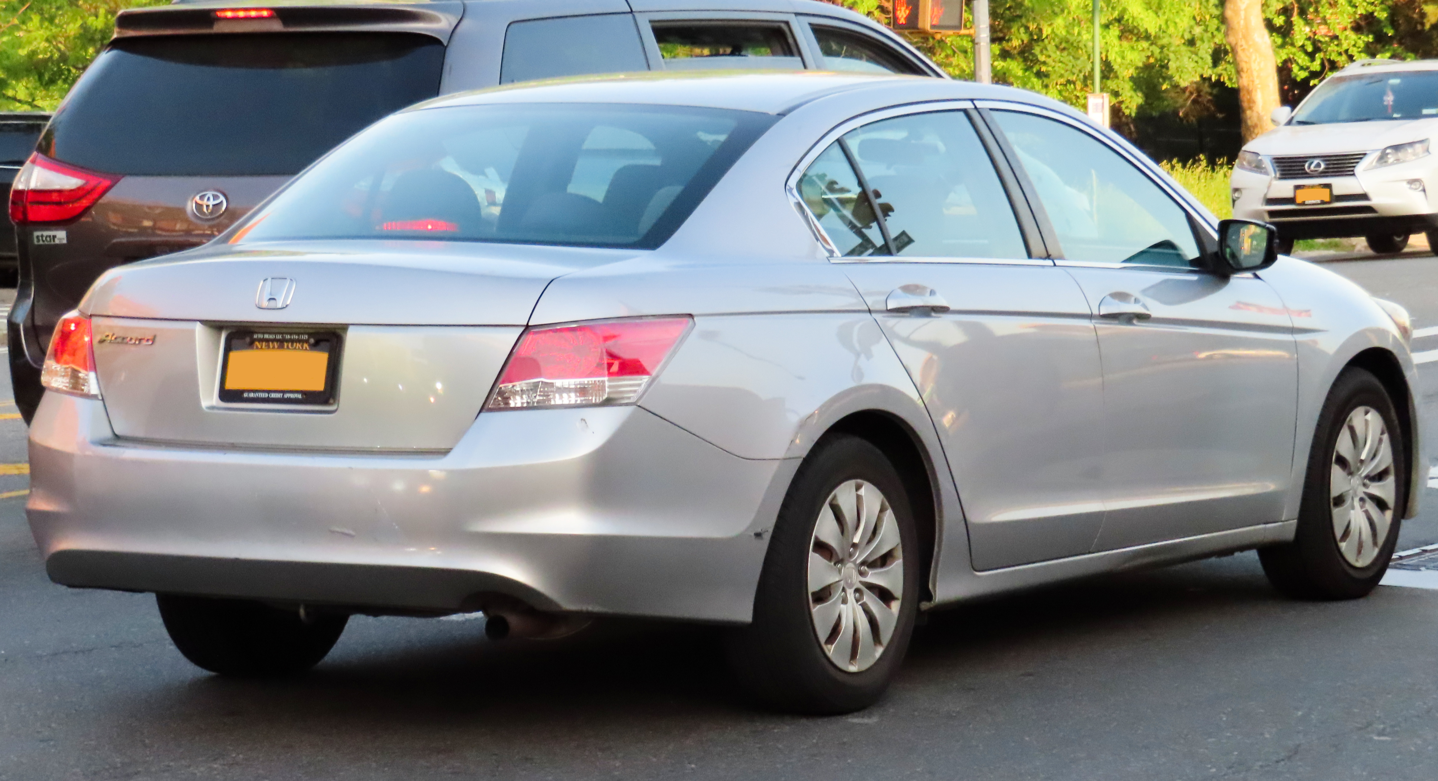 A 2010 Honda Accord LX photographed in Queens, New York, USA